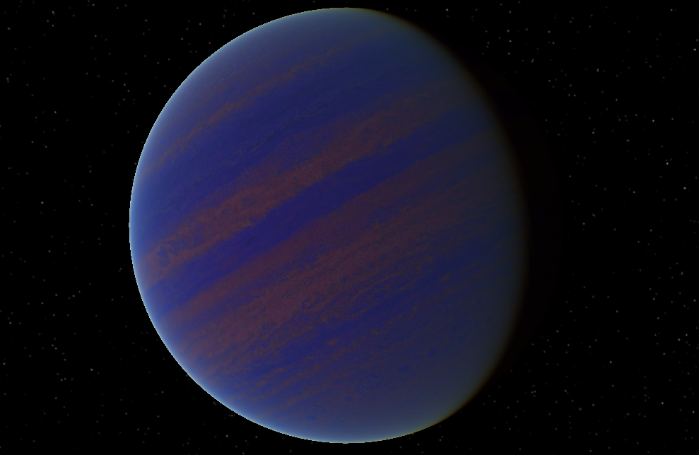 18 Delphini b, hot jupiter planet.